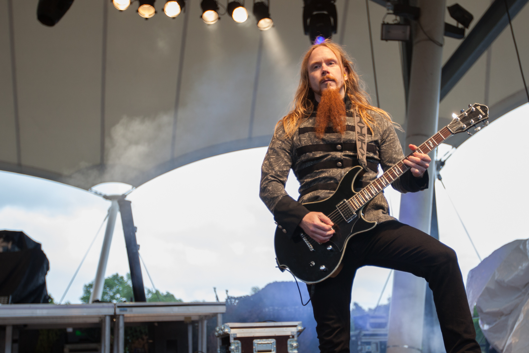 Civil War at Noch ein Bier Fest 2015 (Amphitheater, Gelsenkirchen, North-Rhine-Westphalia, Germany) on 25th July 2015